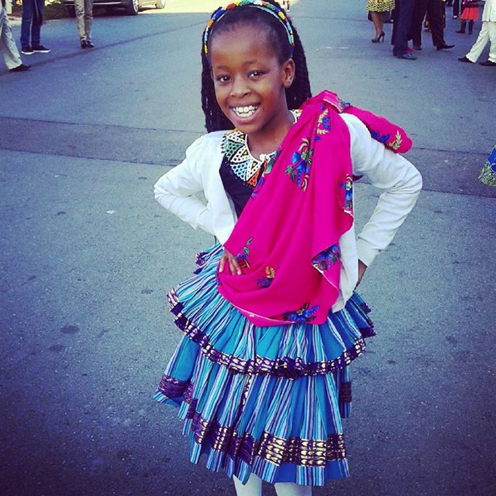 Tsonga little girl This is an image of Cultural Fashion or Adornment from South Africa